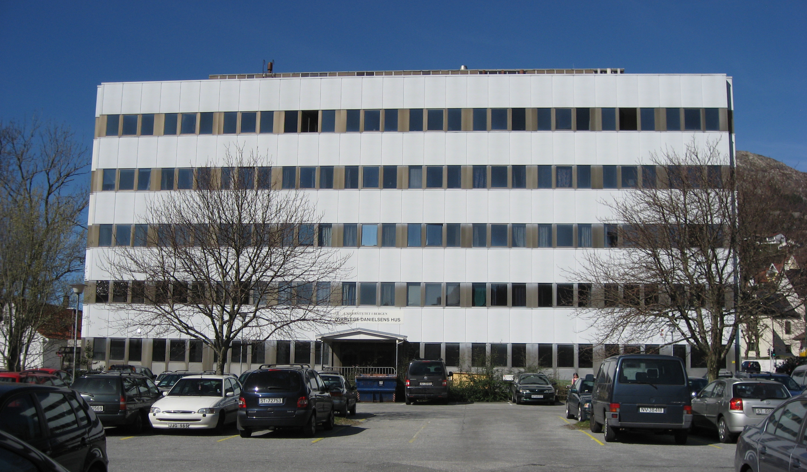 Overlege Danielssens Building, University of Bergen, Norway